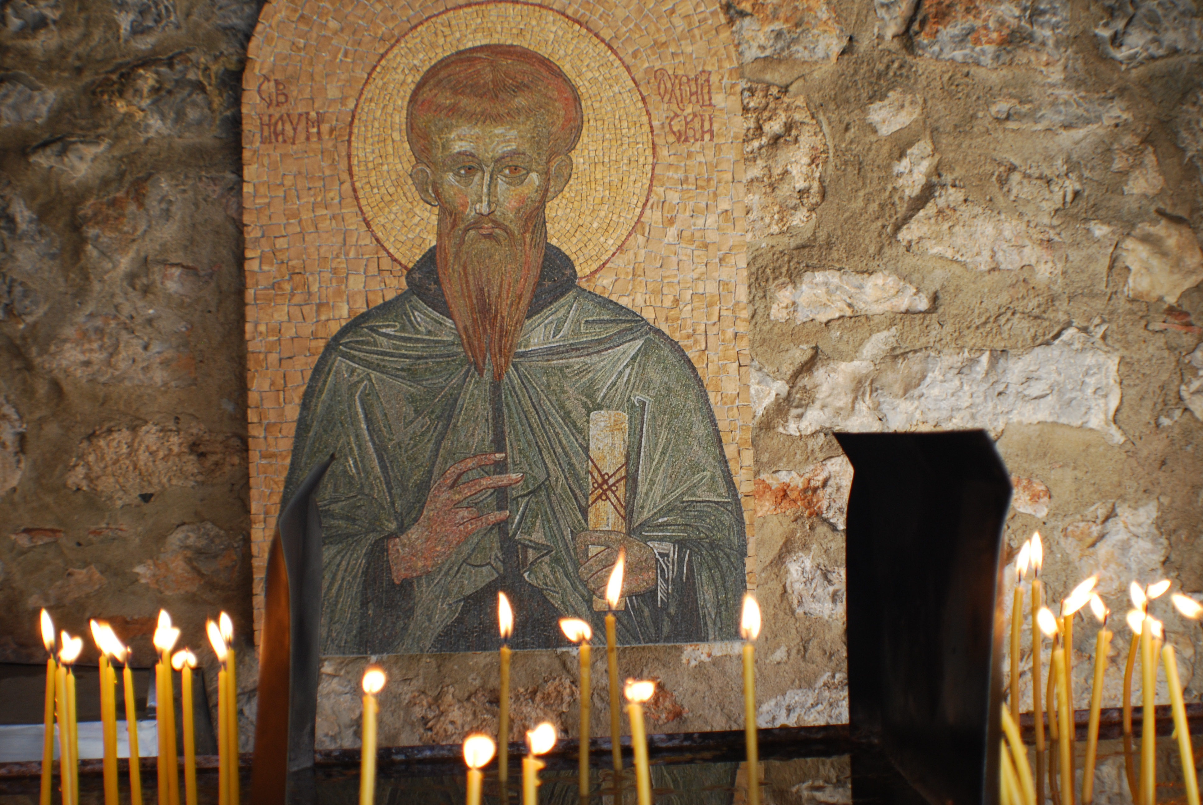 St. Naum Monastery, Ohrid, Macedonia